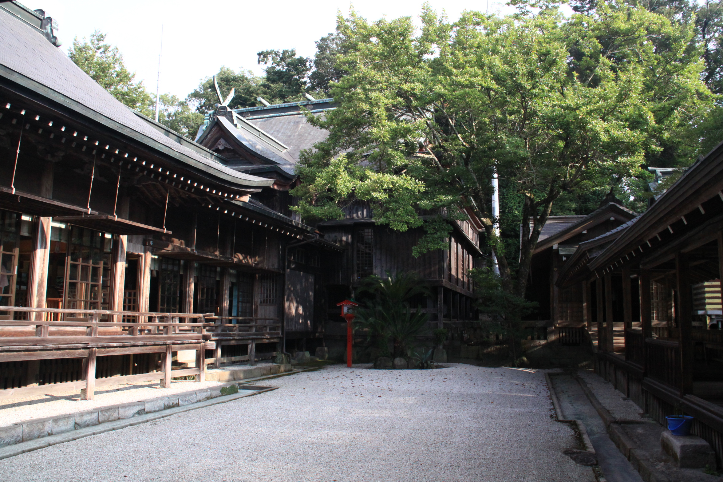 Nitta jinja Honden